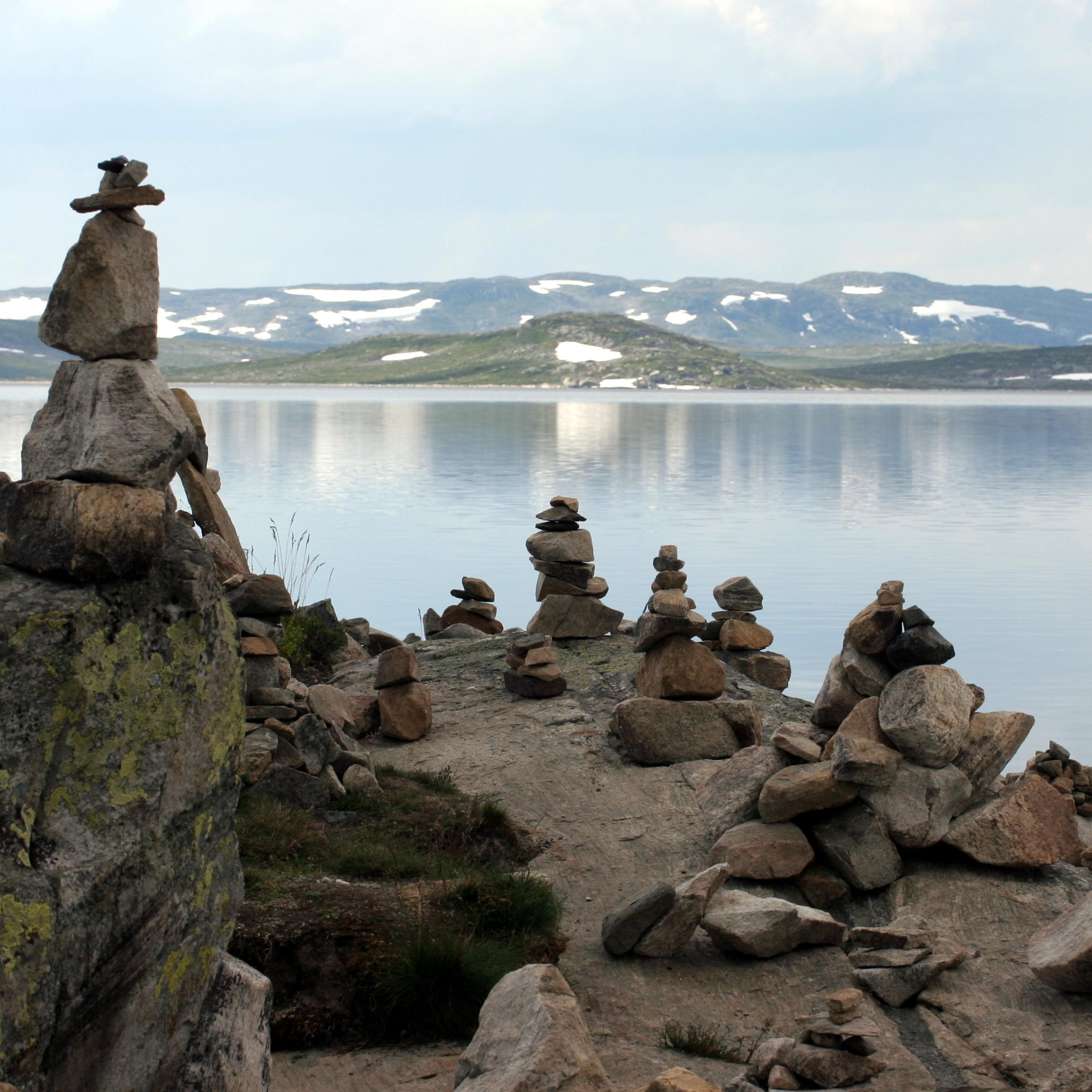 A lake in the Hardanger with still snow in August! Those cairns are certainly not there to indicate the way but are just lucky charms for those who bring their stone.